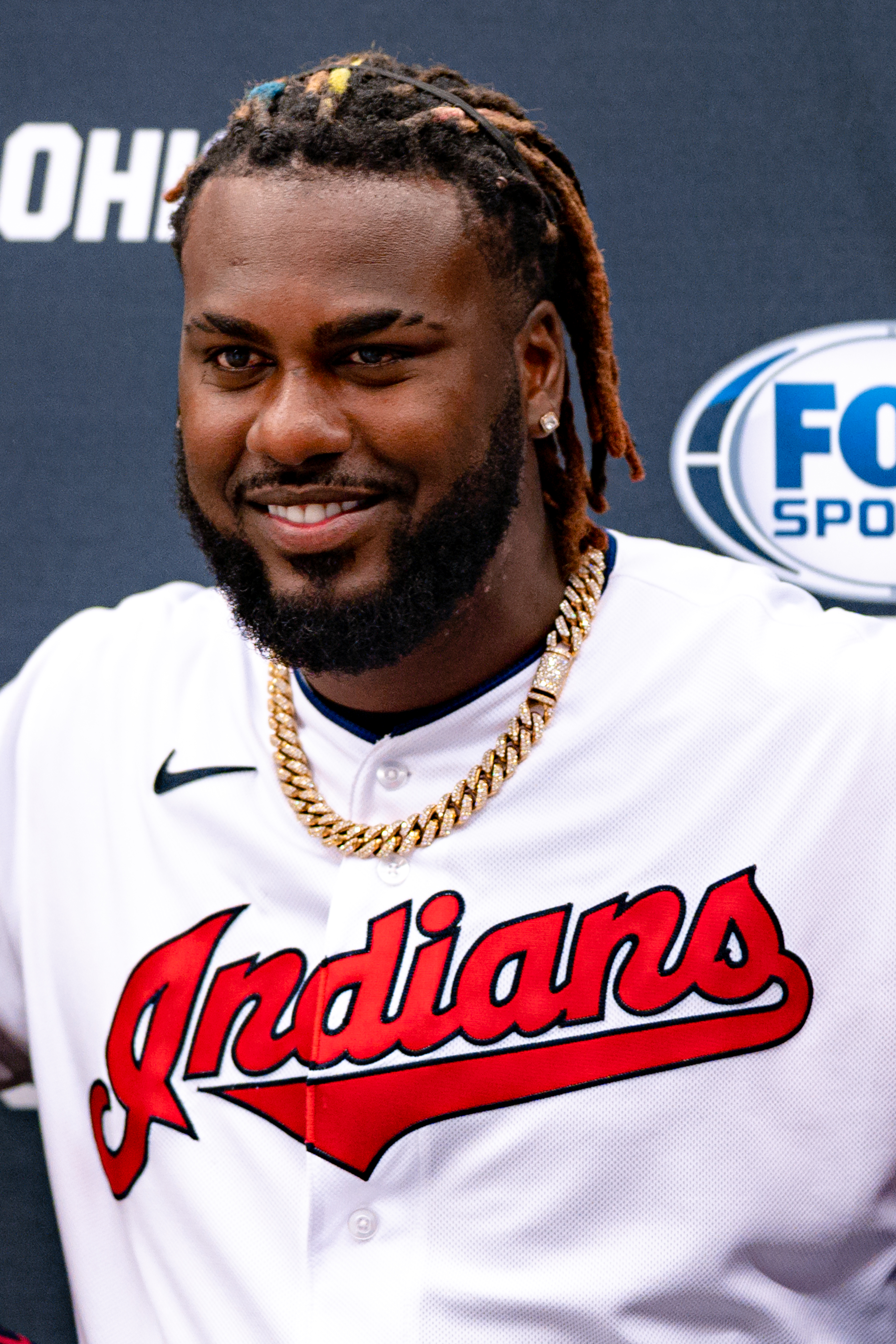 Franmil Reyes at Cleveland Indians Tribe Fest at Huntington Convention Center of Cleveland in February 2020.